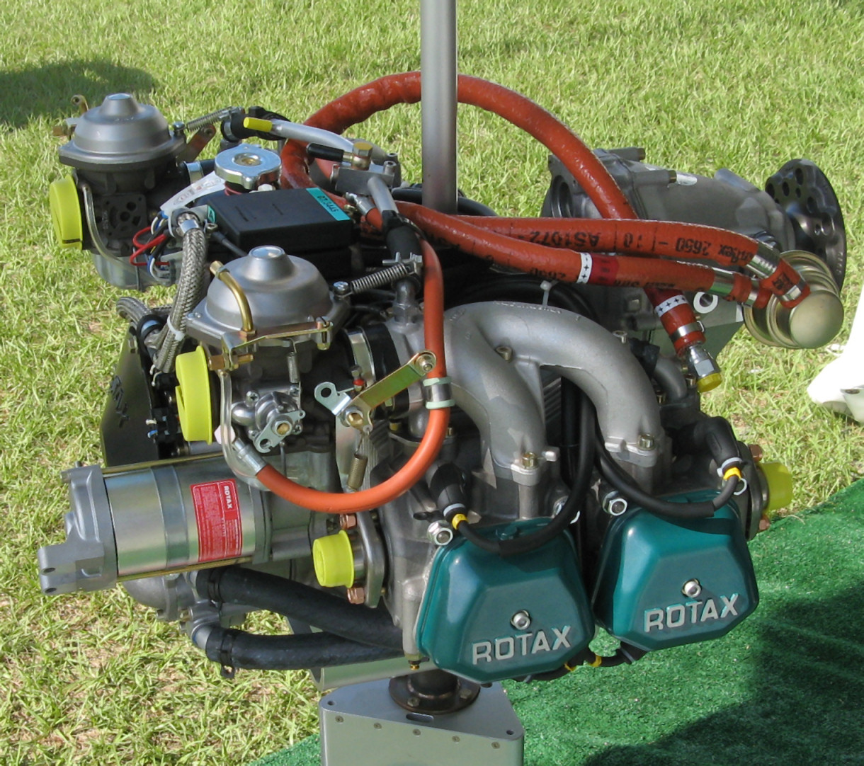 Rotax 912 ULS flat-four engine, Sun 'N Fun airshow, Lakeland, Florida